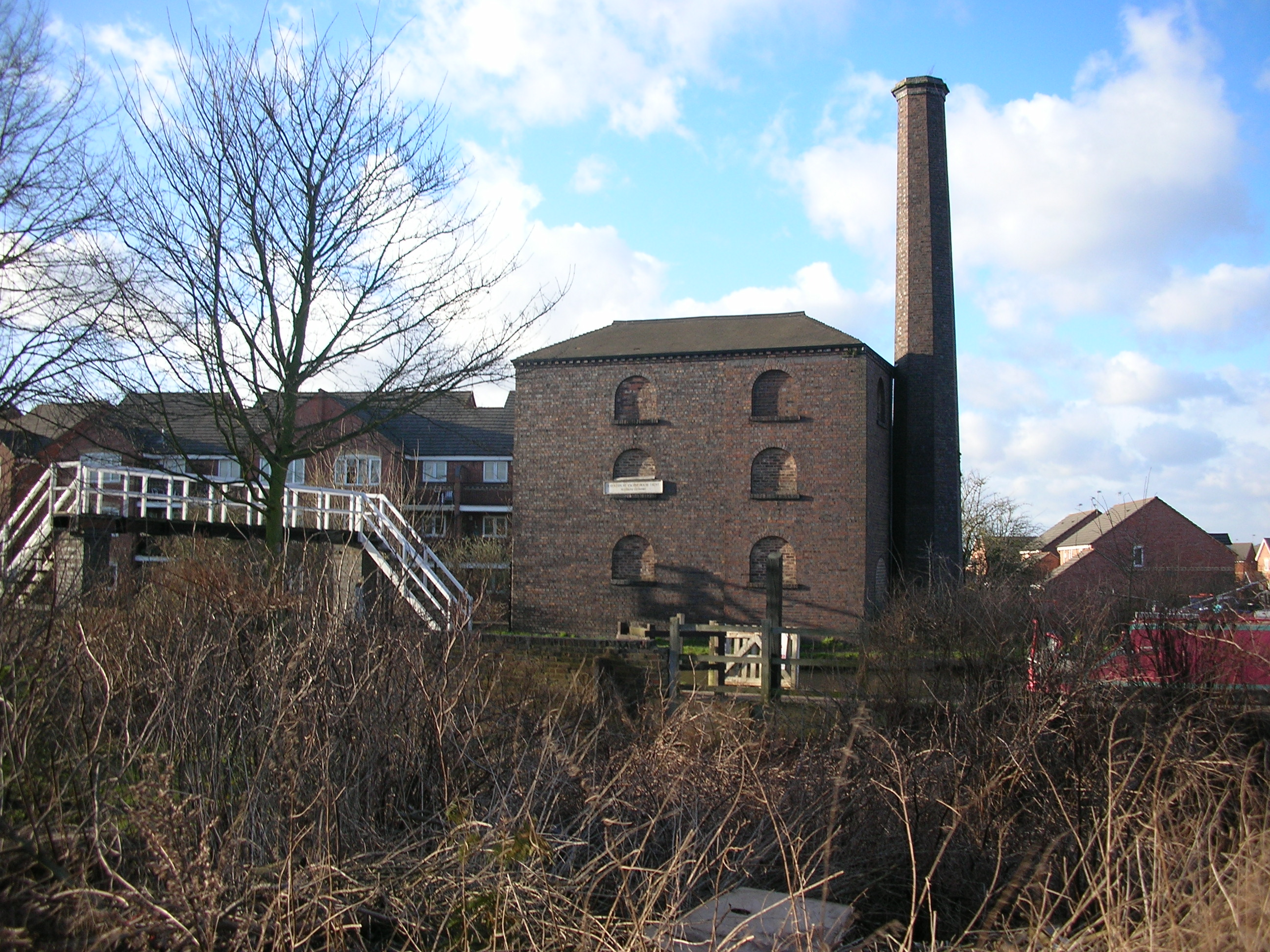 Coventry Canal engine house at Hawkesbury Junction (also called Sutton Stop), Warwickshire, the junction with the Oxford Canal